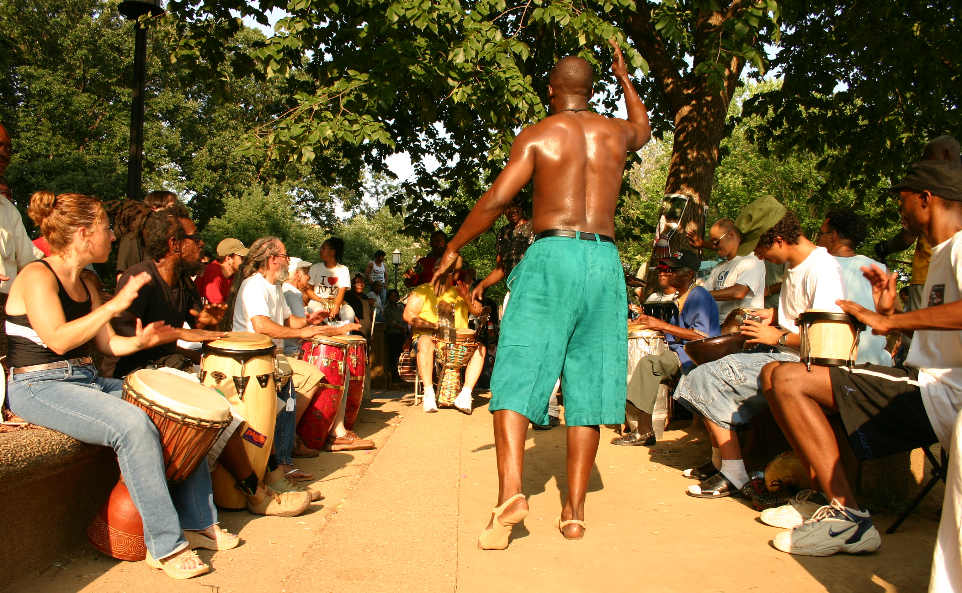 A man dances during a drum circle taking place at Meridian Hill Park, a National Historic Landmark located in the Columbia Heights neighborhood of Washington, D.C.